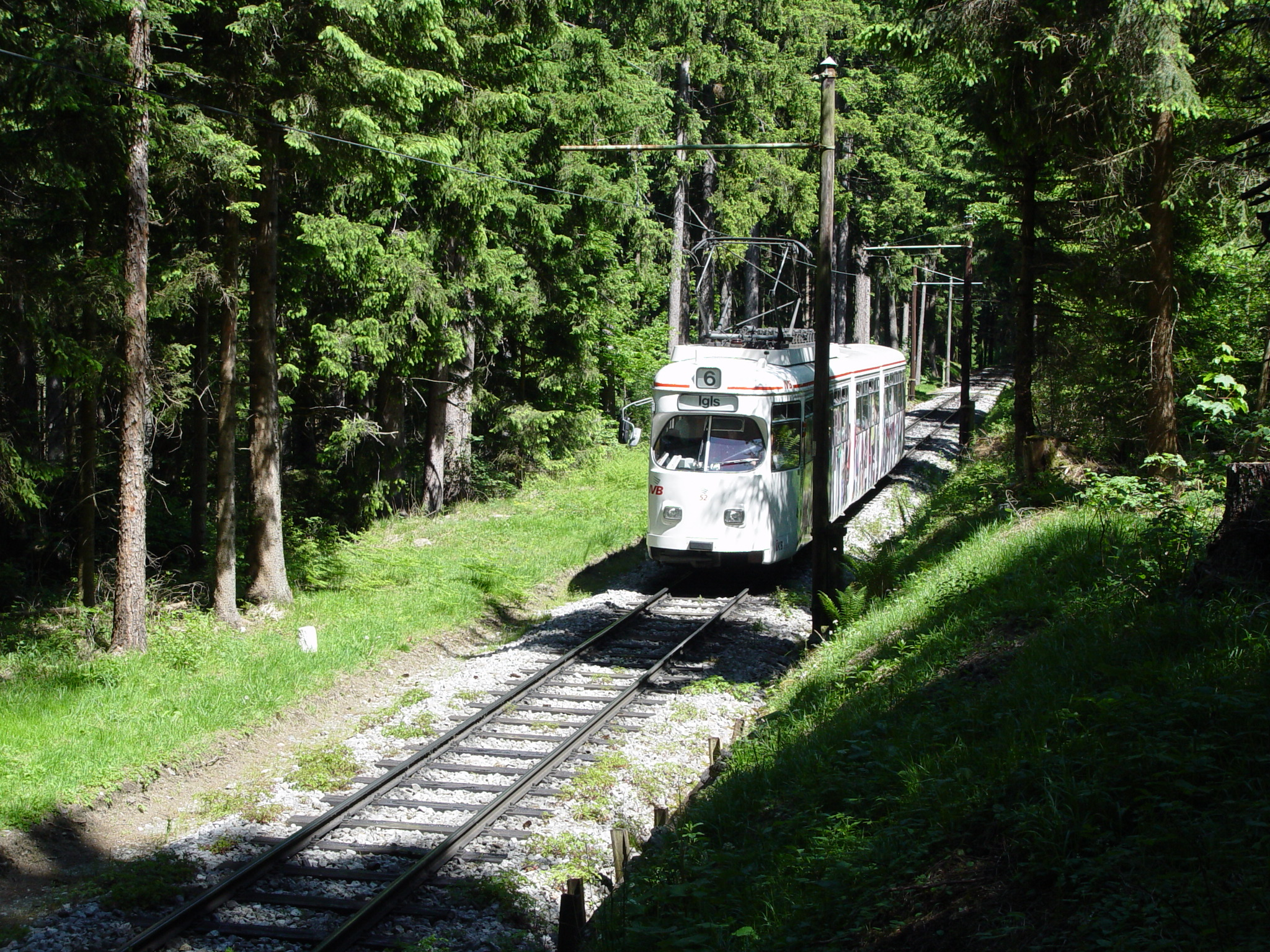 Railcar 52 from behind on the road to Aldrans Aunt Gert on the Igler